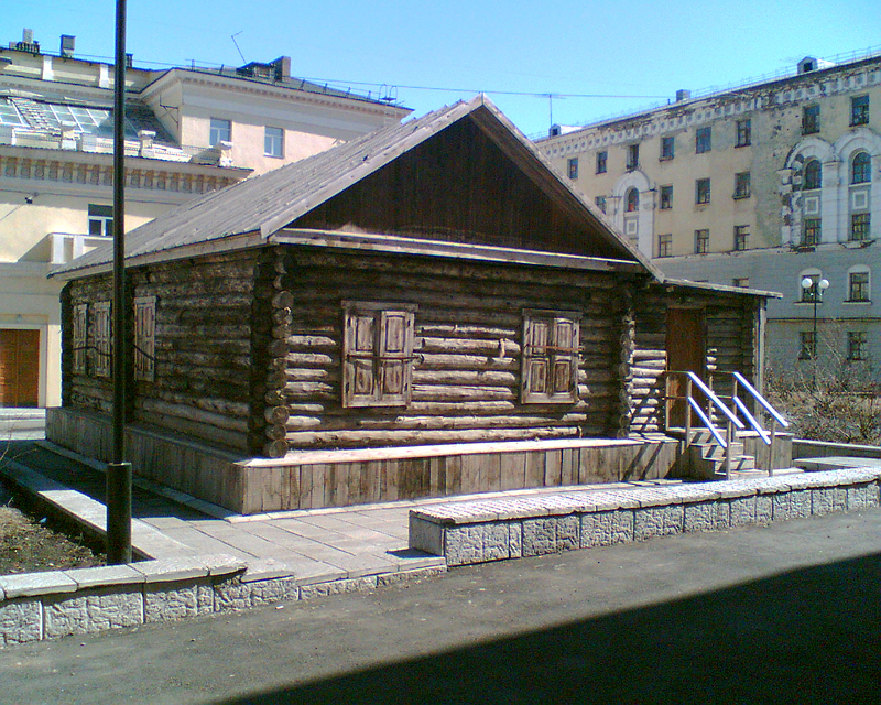 First house built in the city of Norilsk, Russia